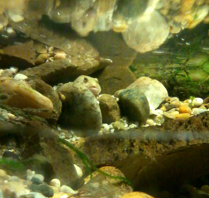 Cottus gobio (European bullhead) in Christoph´s coldwater tank likes overview.